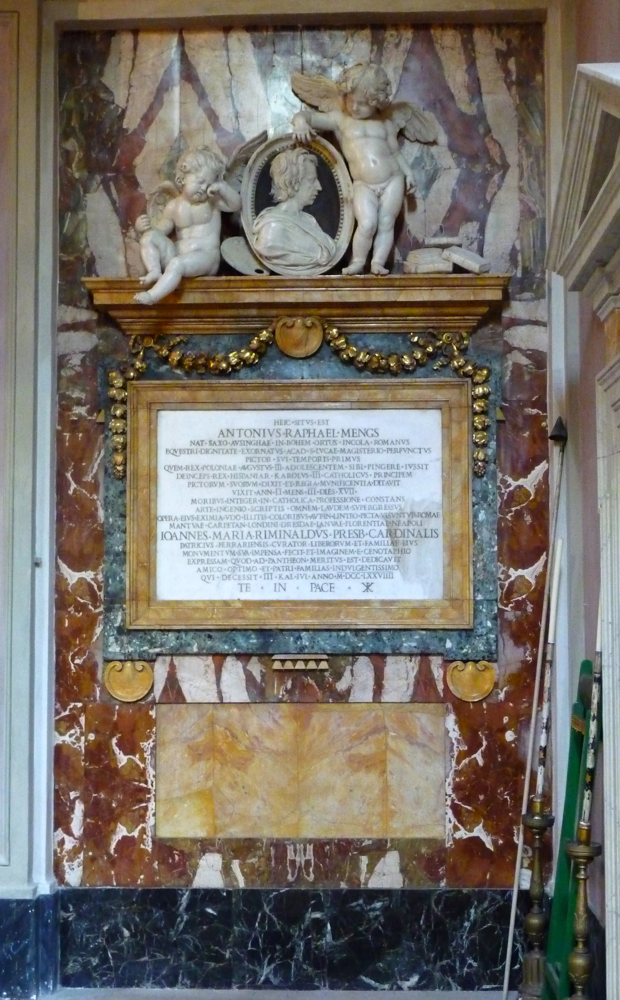 Anton Raphael Mengs' grave in SS Michele e Magno in Rome